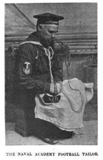 The Navy football team's tailor sewing a canvas uniform for the team, c. 1892.